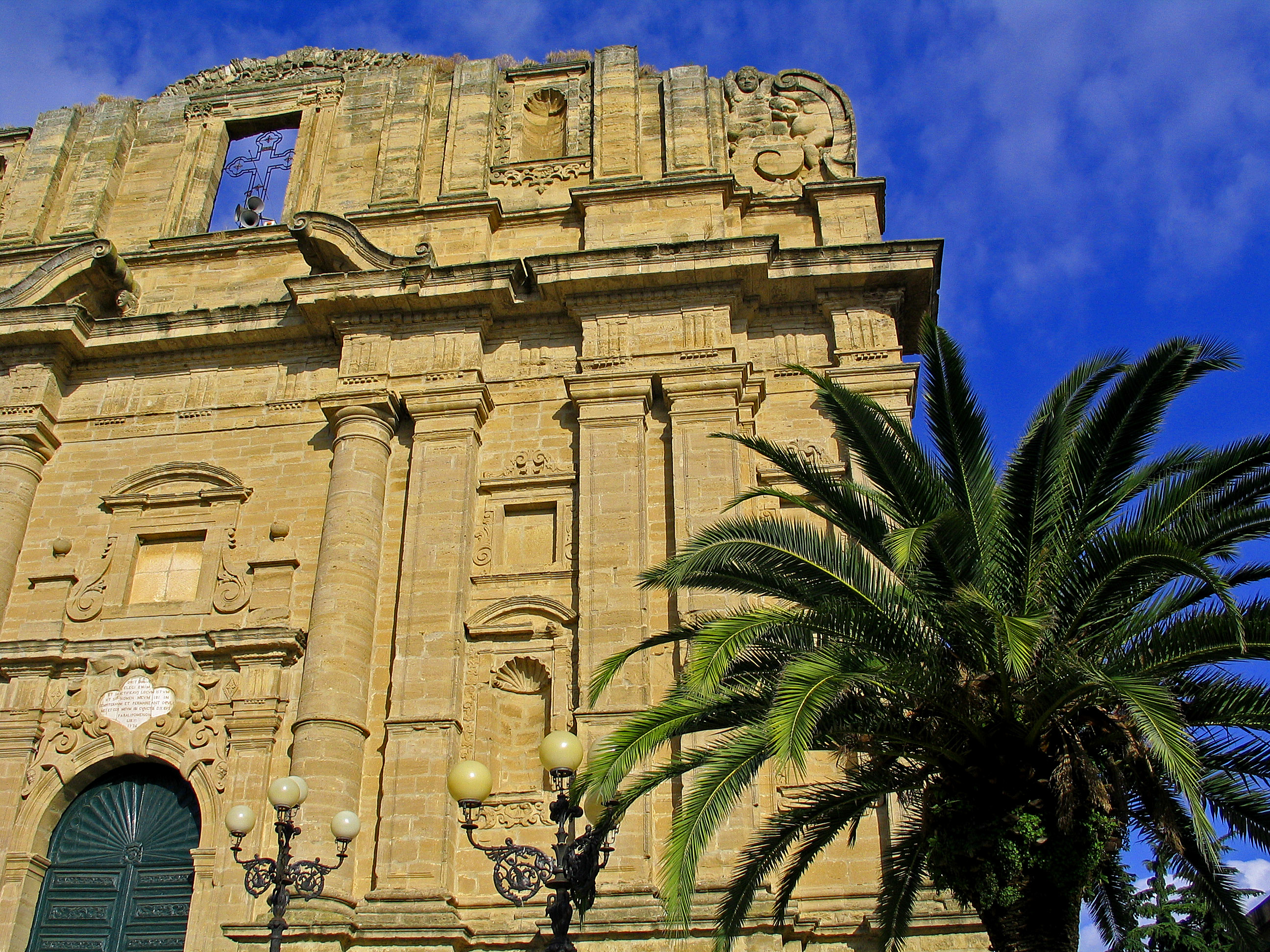 Mazzarino, facade of the Parish Church of Our Lady of the Snow.